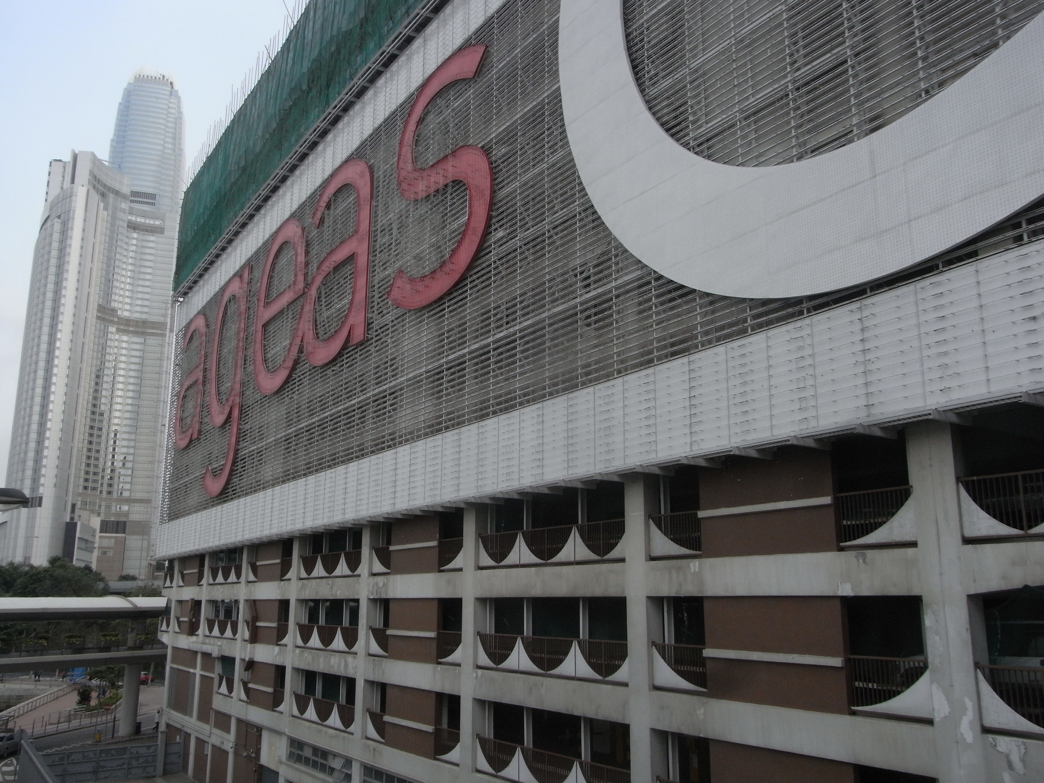 上環 林士街多層停車場